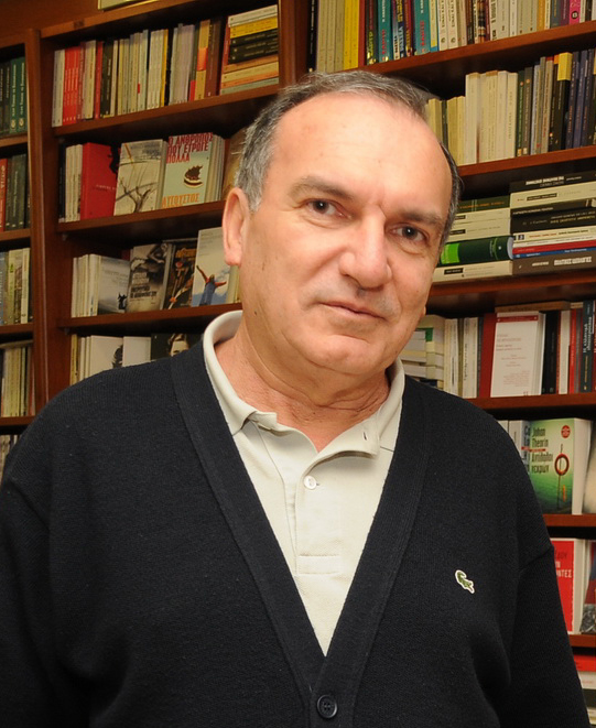 Nikos Sideris portrait